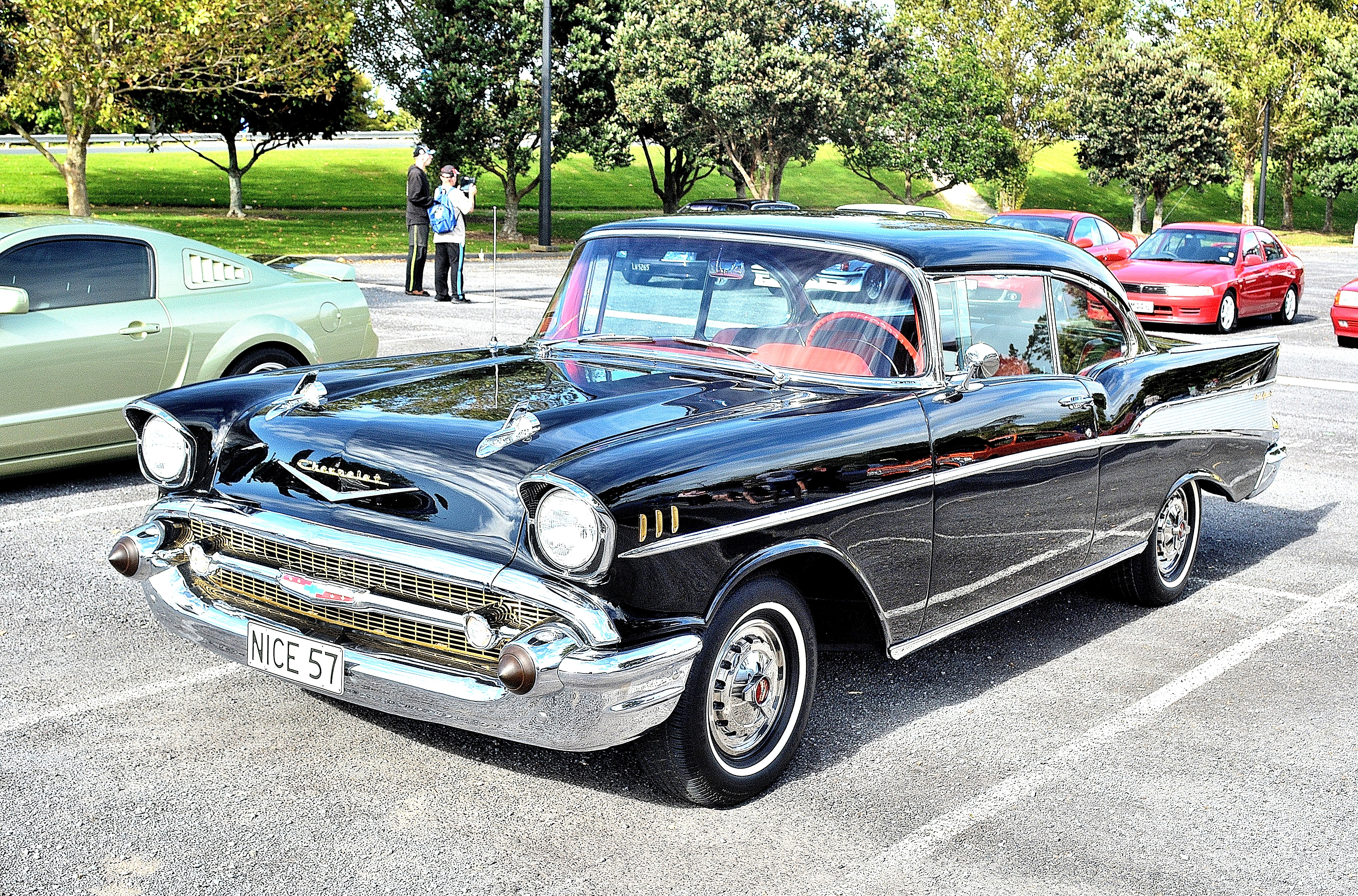 Smale Farm Northcote,Auckland.New Zealand